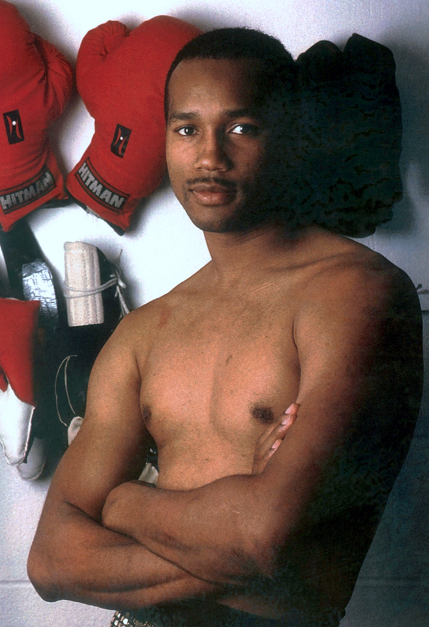 Military Photographer of the Year Winner 1999 TITLE: "Hitman" CATEGORY: Portrait PLACE: Honorable Mention Portrait/Second Place Portfolio CAPTION INFORMATION: One world champion, four world titles, four Air Force stripes. Kickboxer SSGT Robert Parham Jr. practices his art at Keesler AFB, Mississippi. IMAGE FILE #DD-SP-01-00061 (original text)